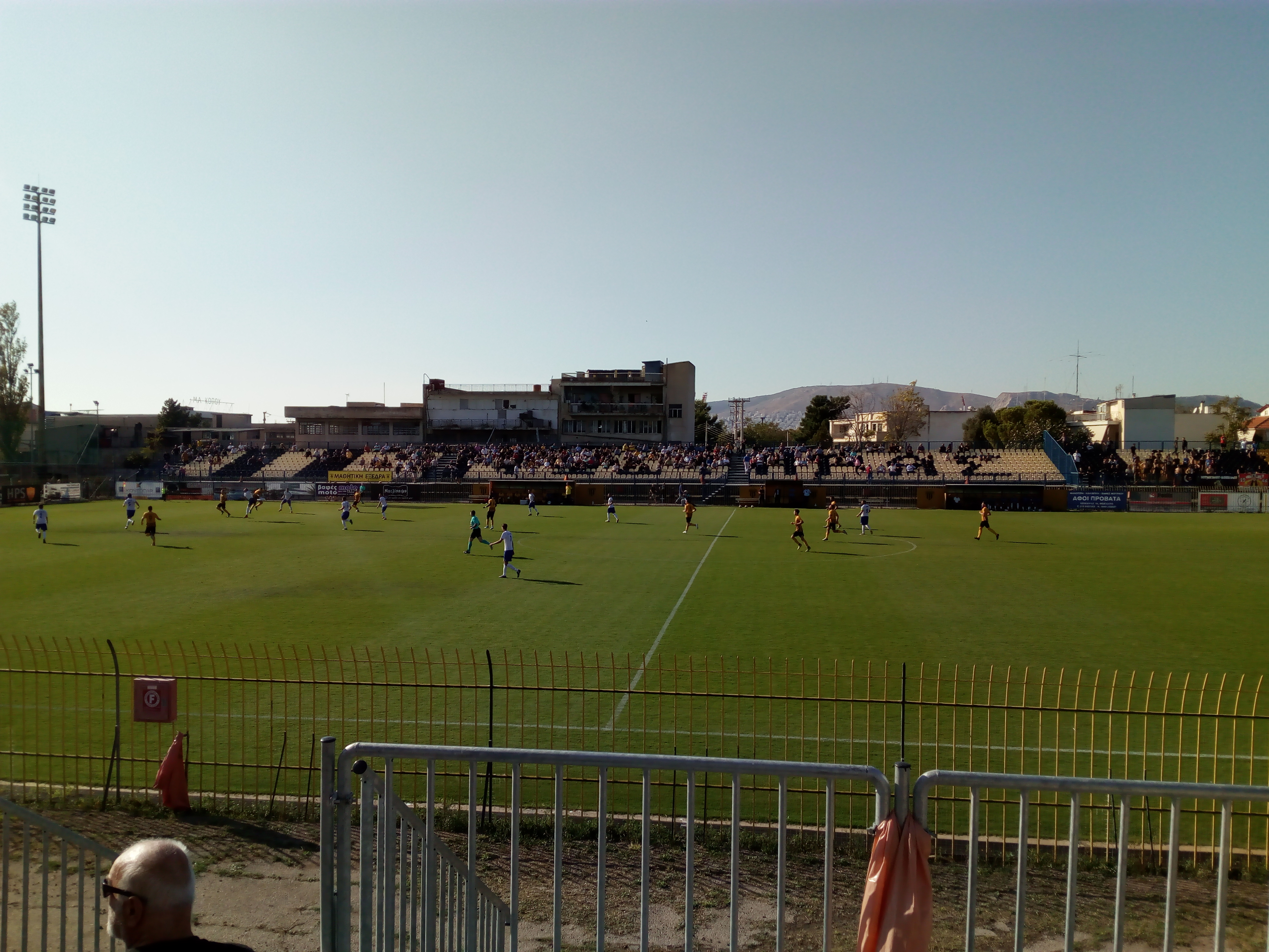 Fostiras-Kallithea 2-2 (2019/20 season)